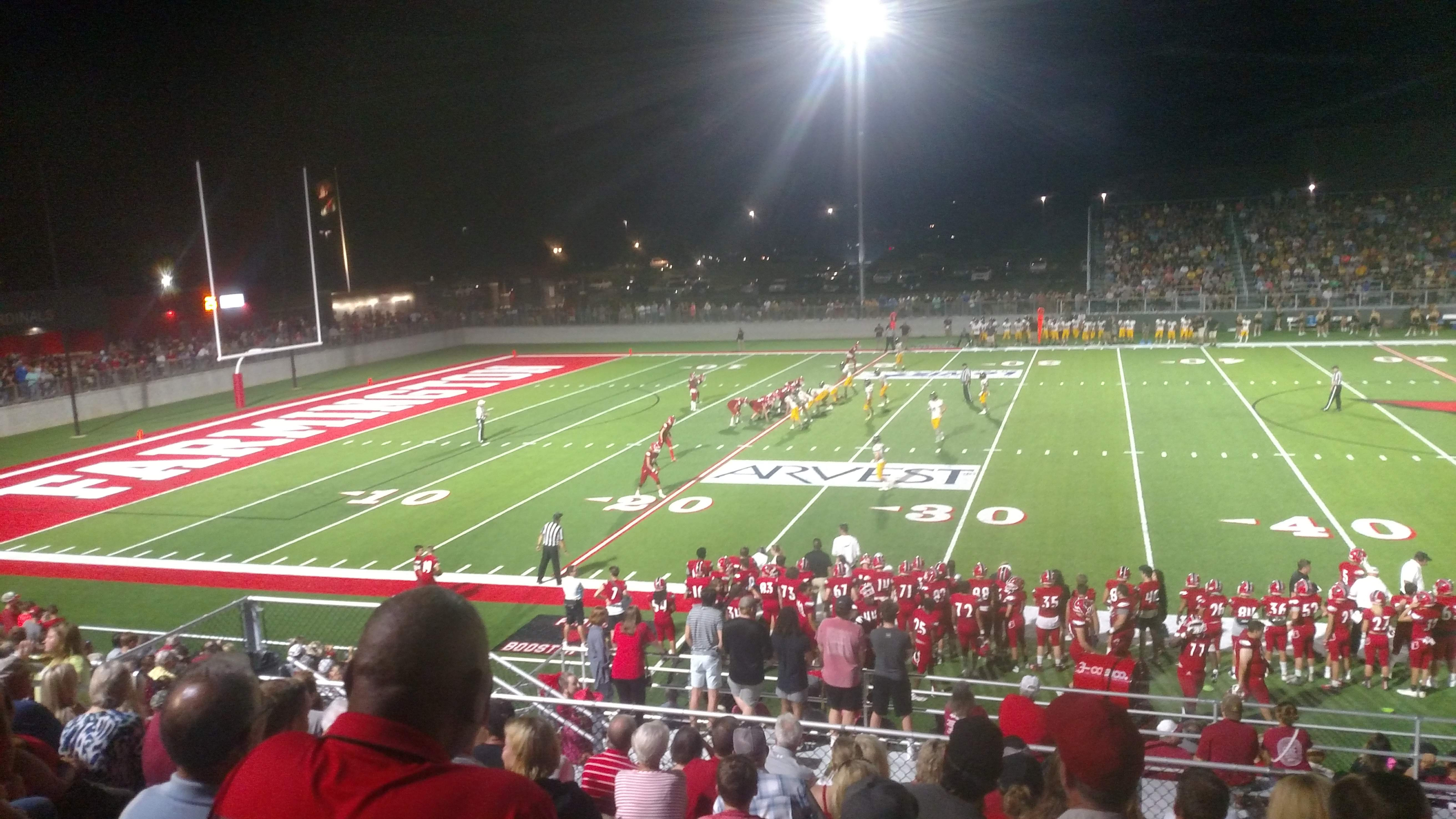 The Prairie Grove Tigers play football against the Farmington Cardinals in Farmington, Arkansas